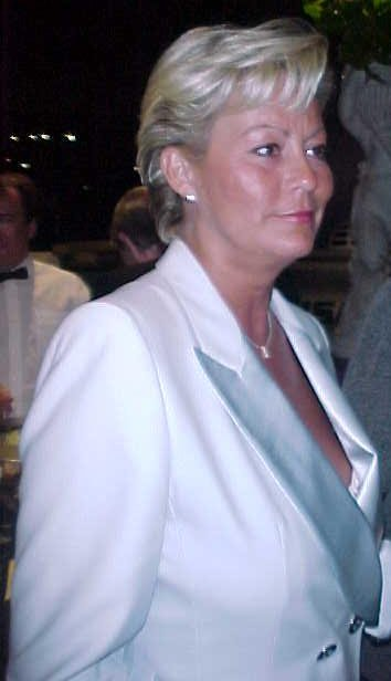 Seka, taken at the Free Speech Coalition's 13th Annual Night of the Stars Dinner on July 29, 2000